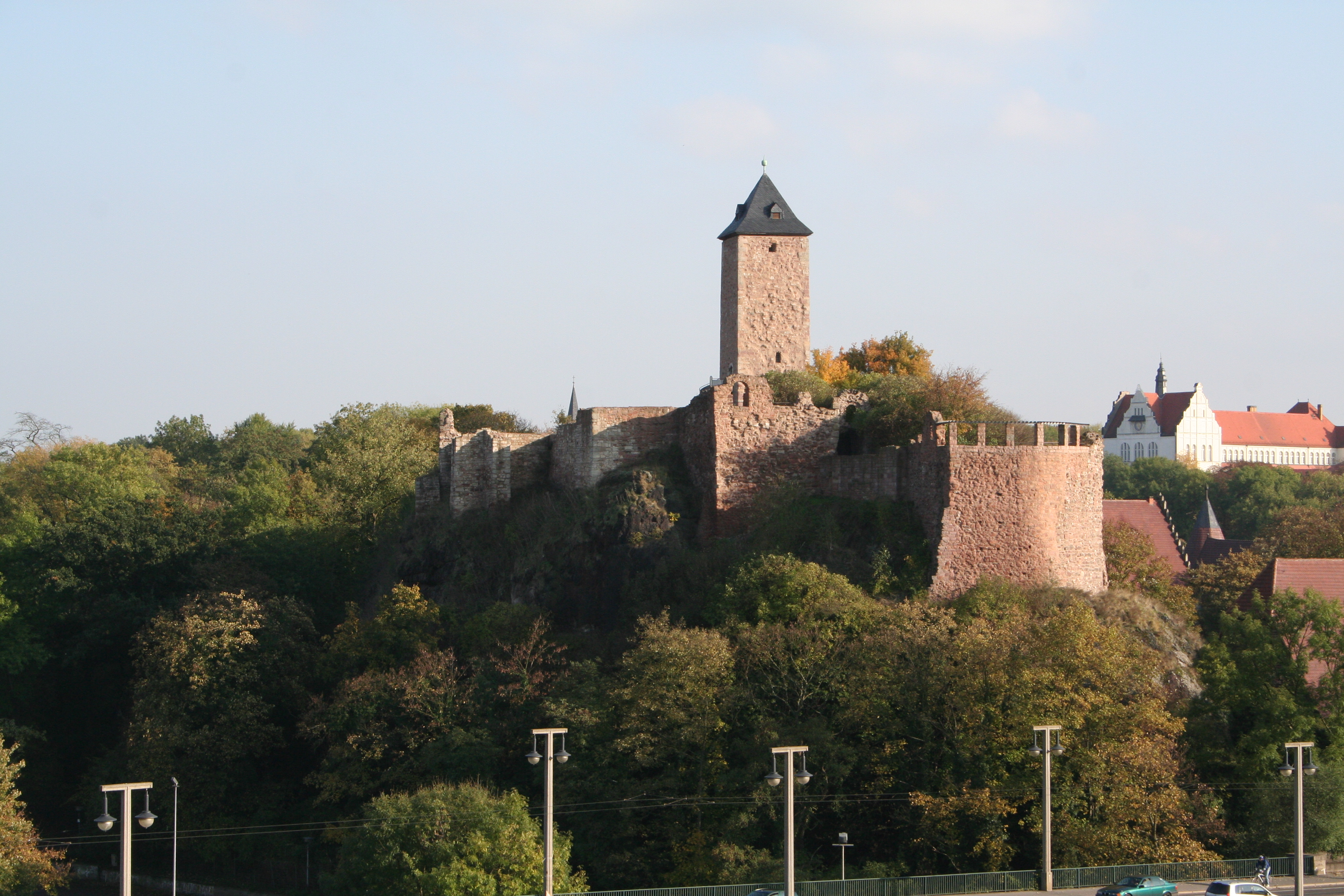 Giebichenstein caste at Halle (Saale)